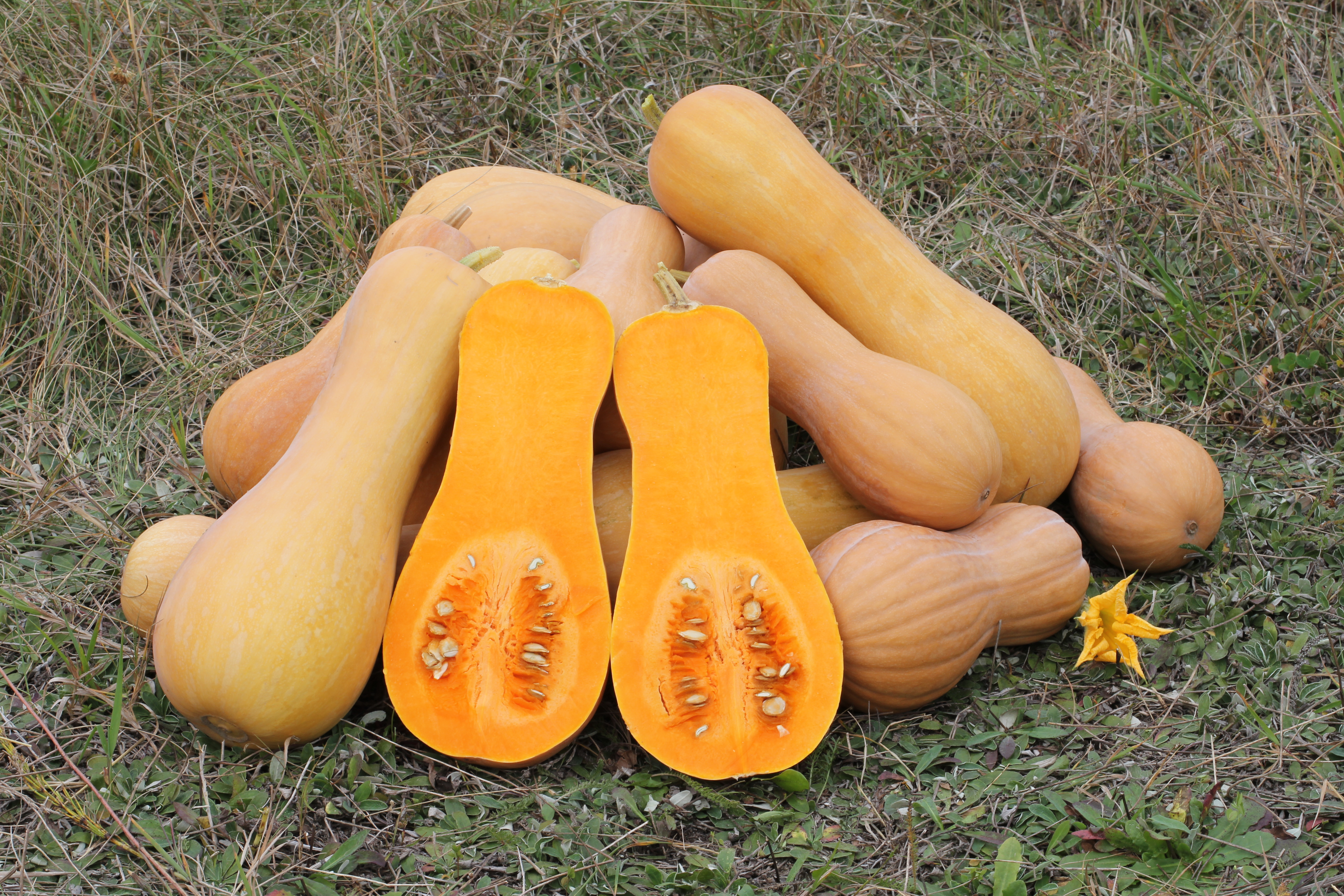 Butternut squash, cultivar variety of Cucurbita moschata, ripe fruits. Ukraine.